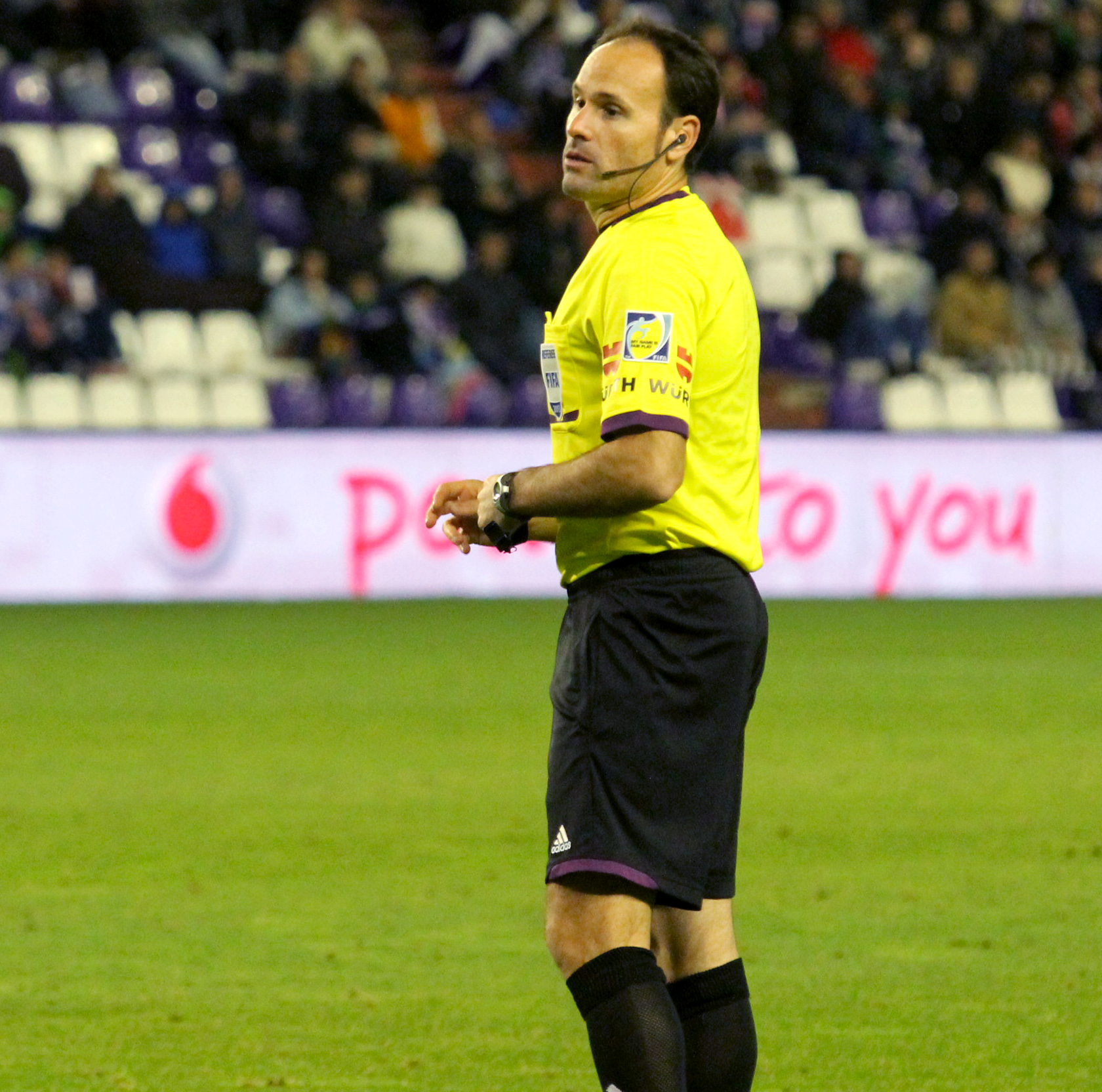 Antonio Mateu Lahoz, Spanish football referee.